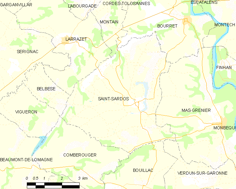 Map of French municipality Saint-Sardos